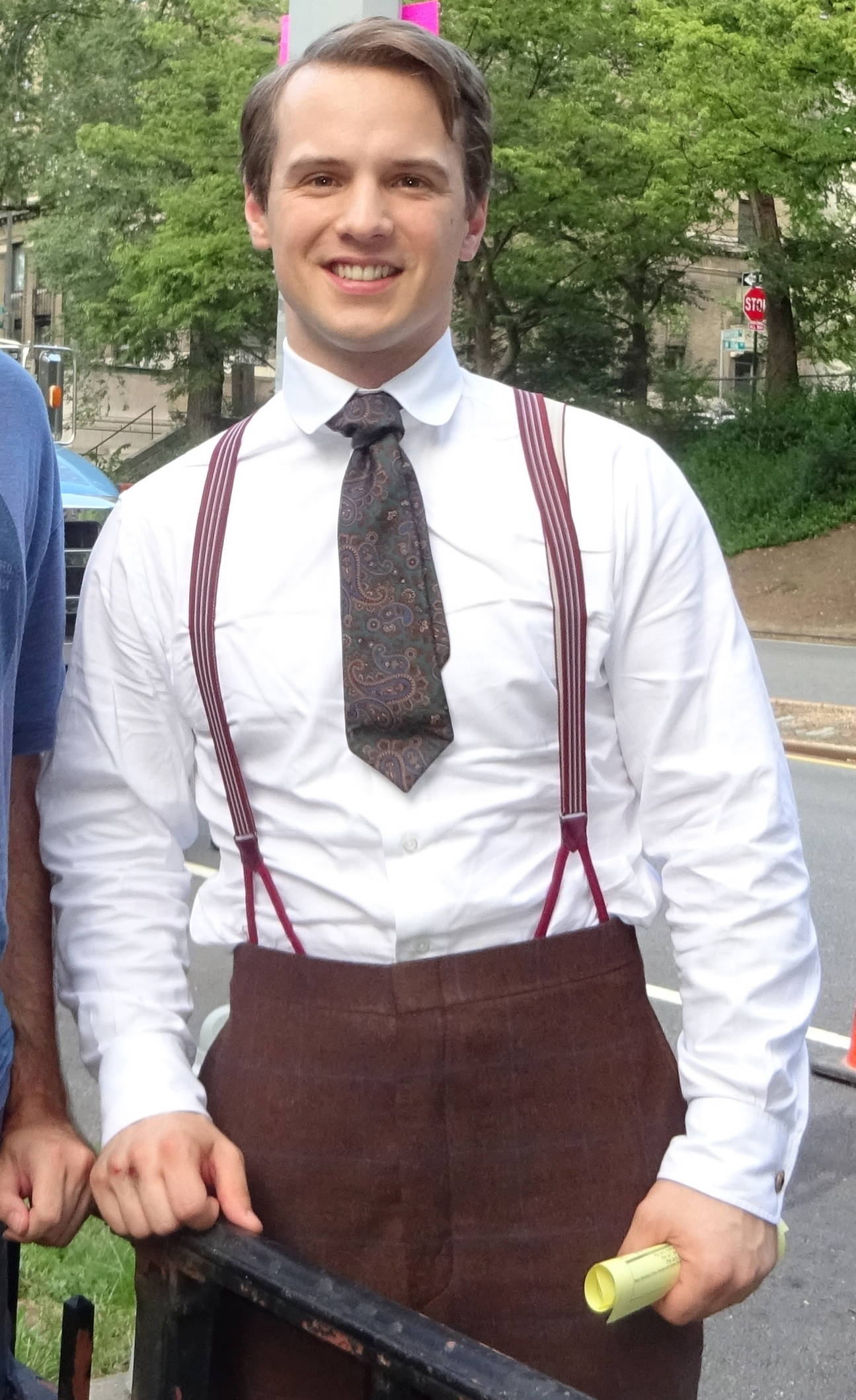 Star of Time After Time. August '16 NYC.